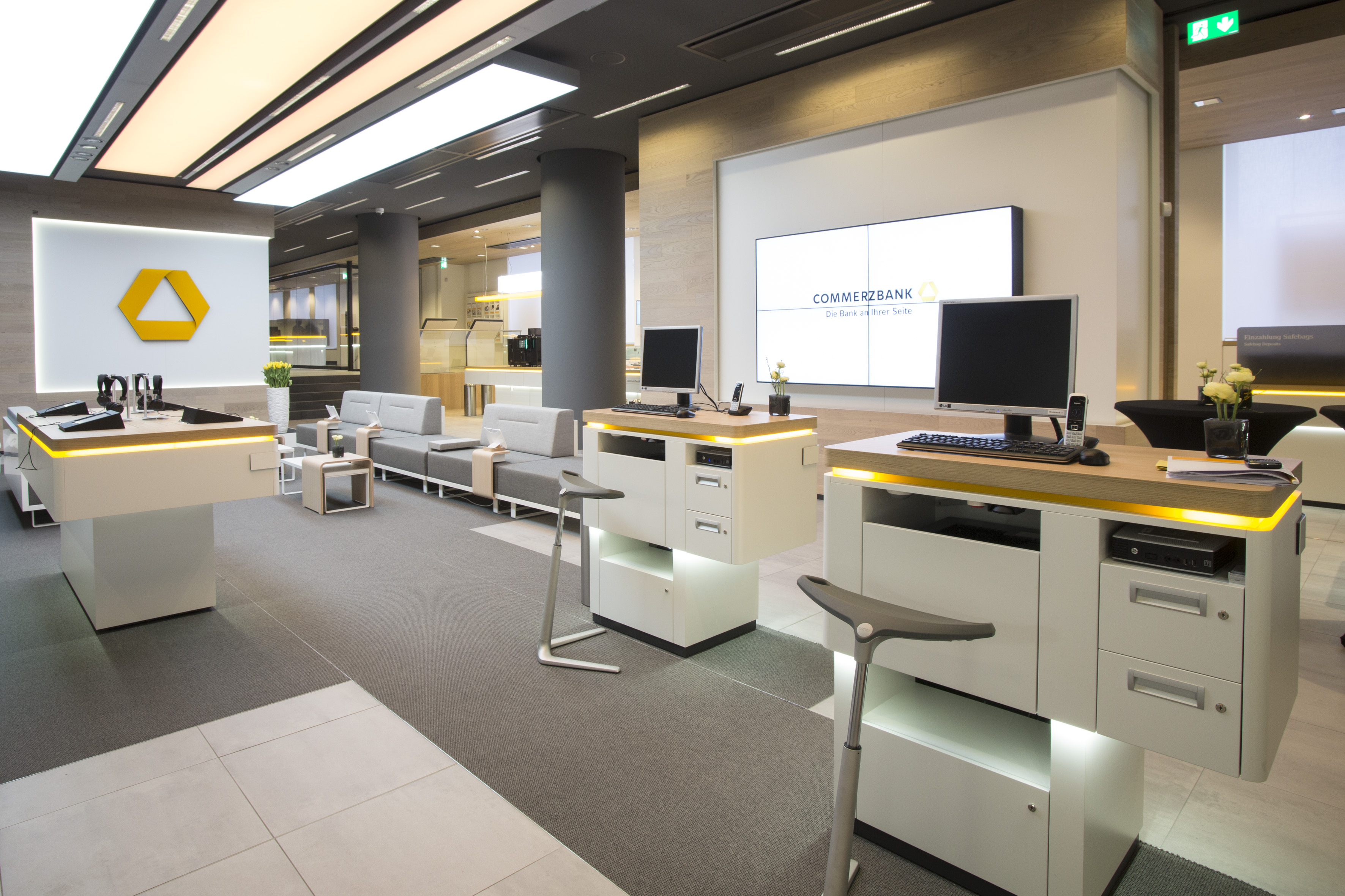 Flagship branch of the Commerzbank in Stuttgart